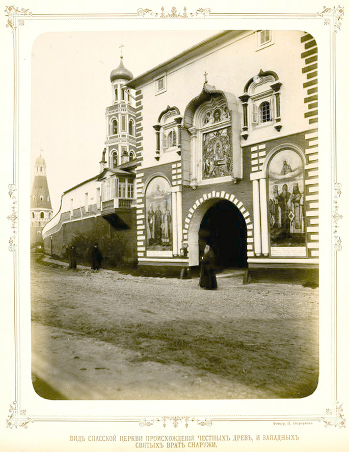 Simonov Monastery (Симонов монастырь) in Moscow. Spasskaya Church above the Saint Gate)